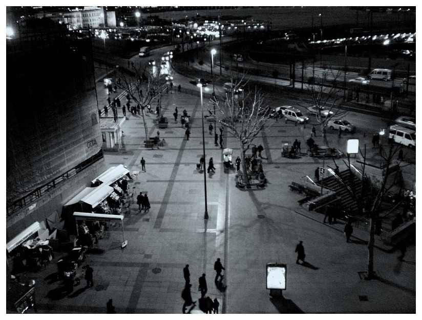 evening at Eminonu January 2008